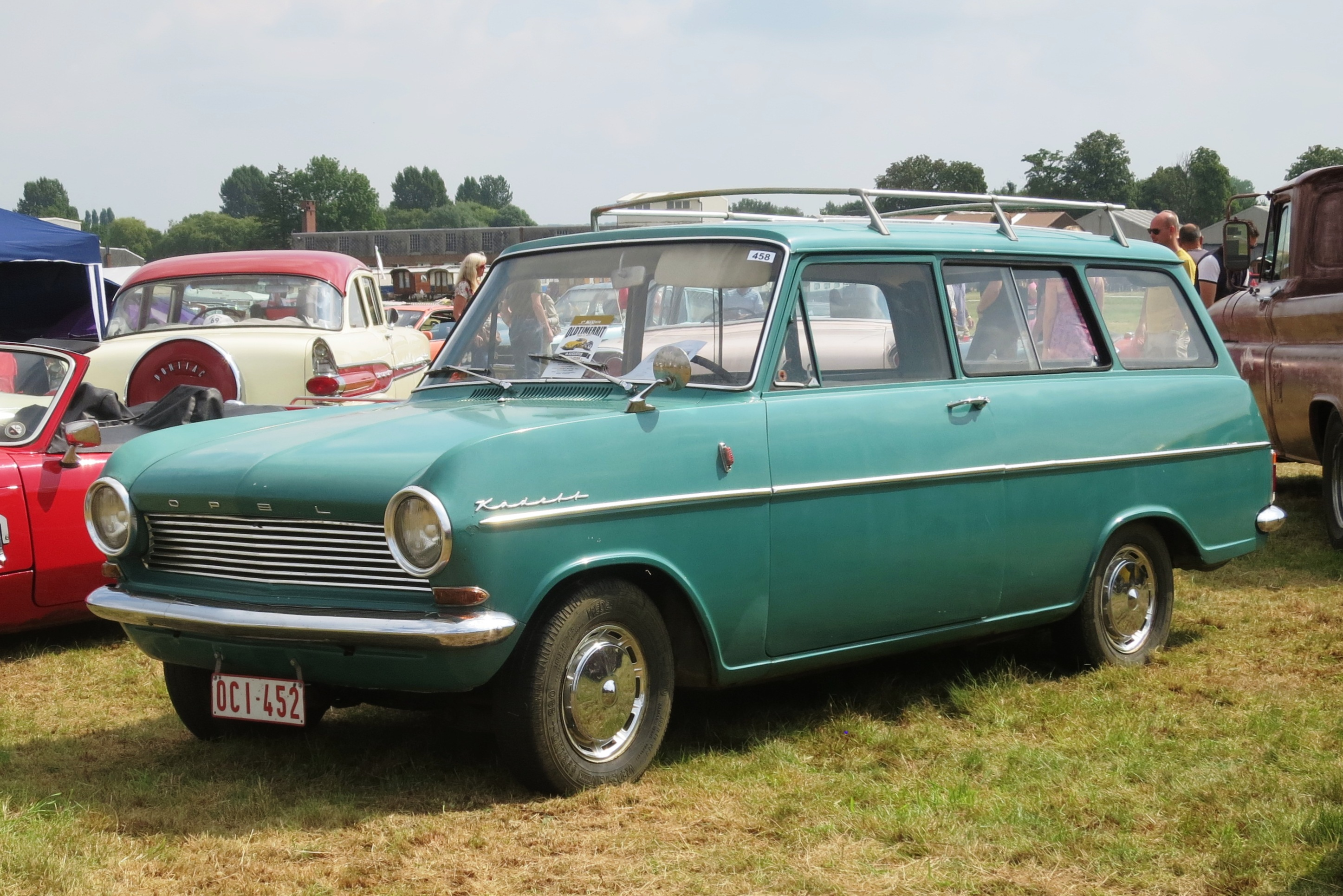 Opel Kadett A esxtate / station wagon, branded at the time as the Opel Kadett Car-A-Van